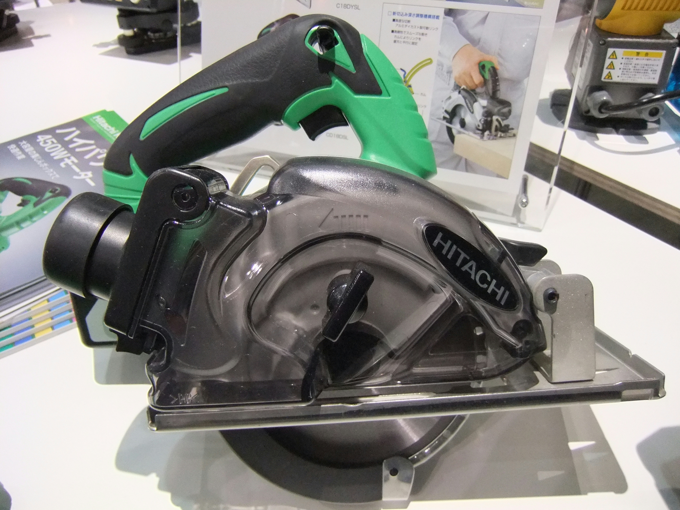 Cordless chip saw cutter manufactured by Hitachi koki. Good Design Award 2012